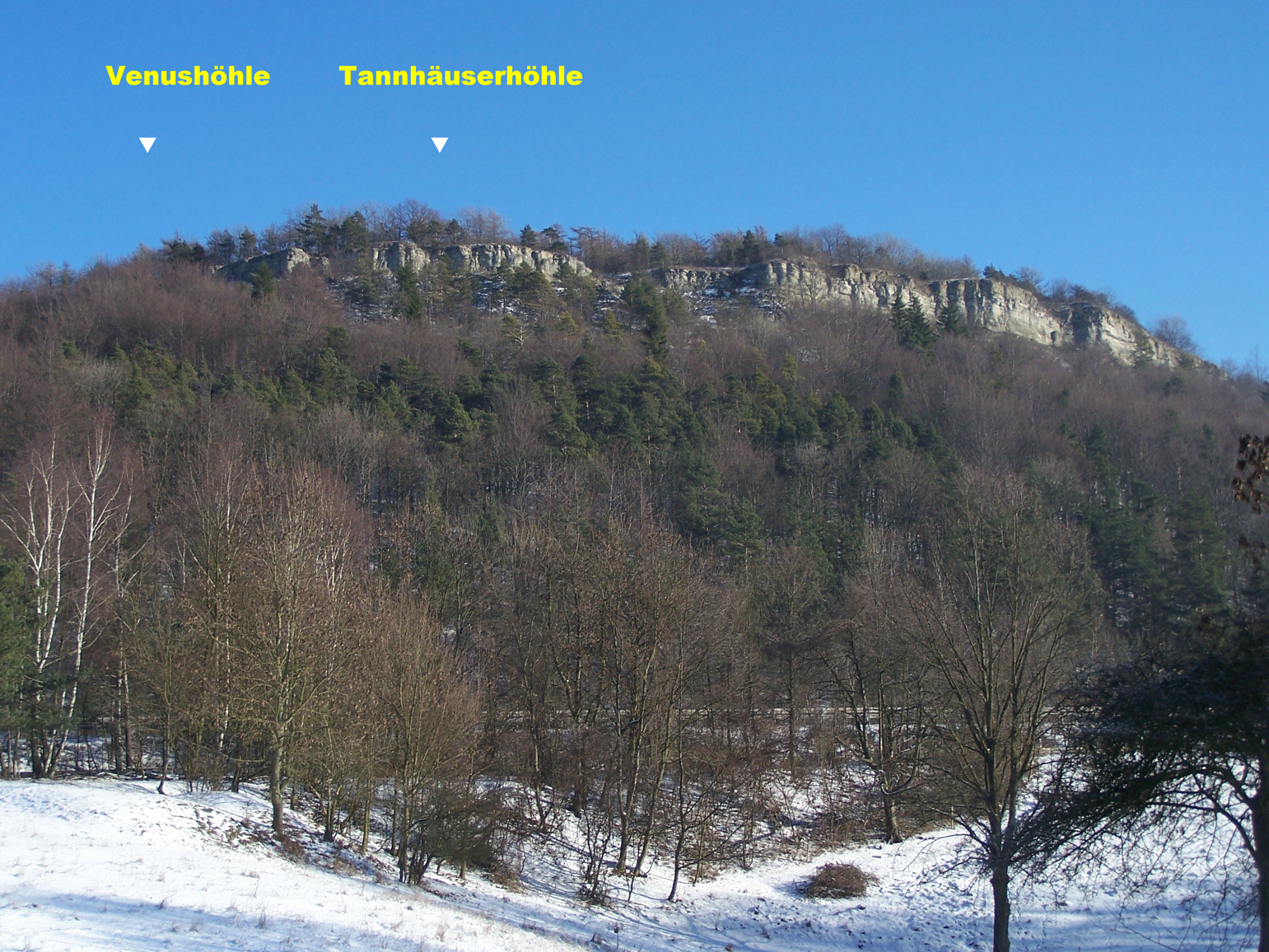 The mount Grosser Hörselberg, western part with position of the caves.